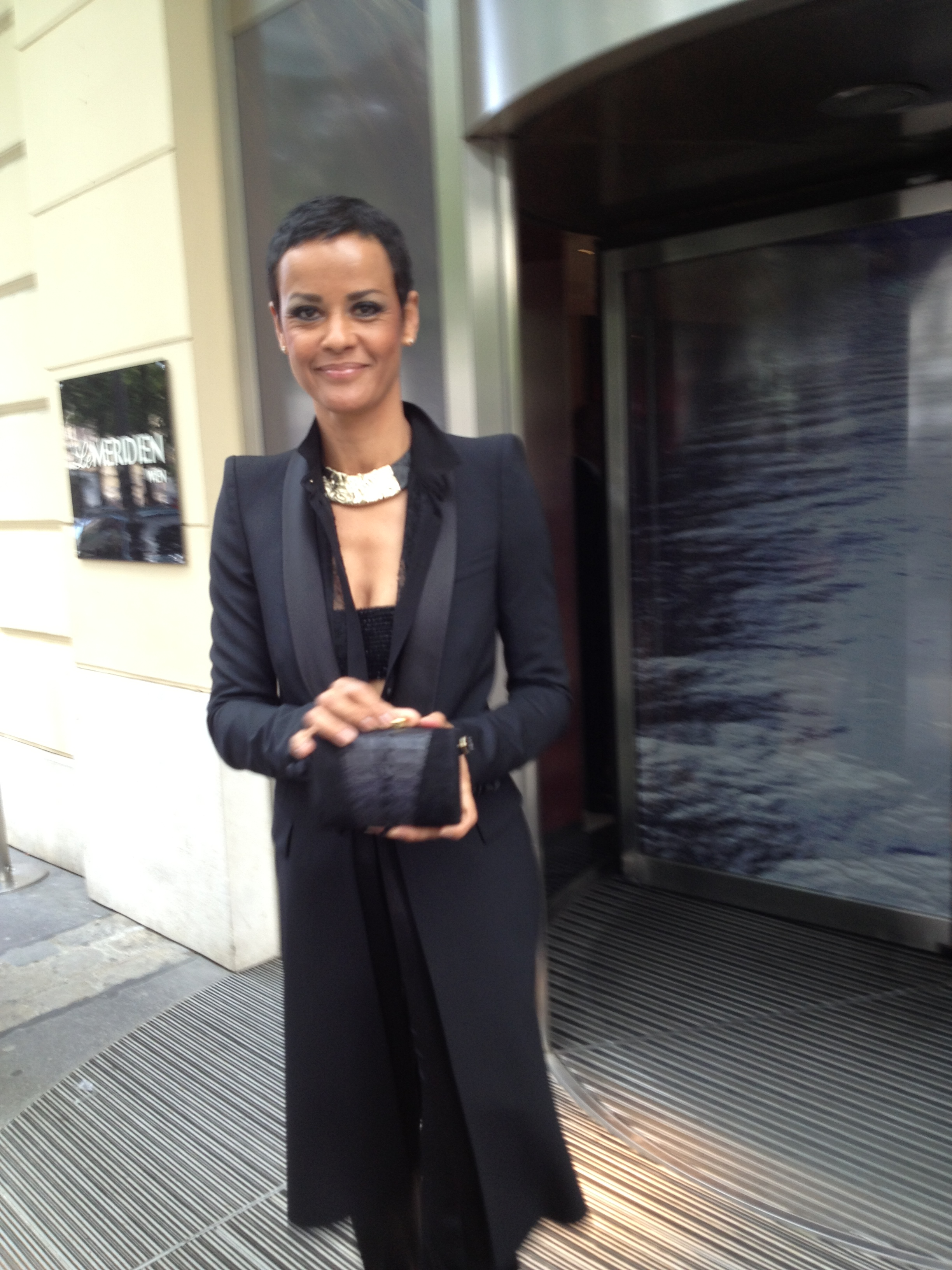 Nadège @ Life Ball wien